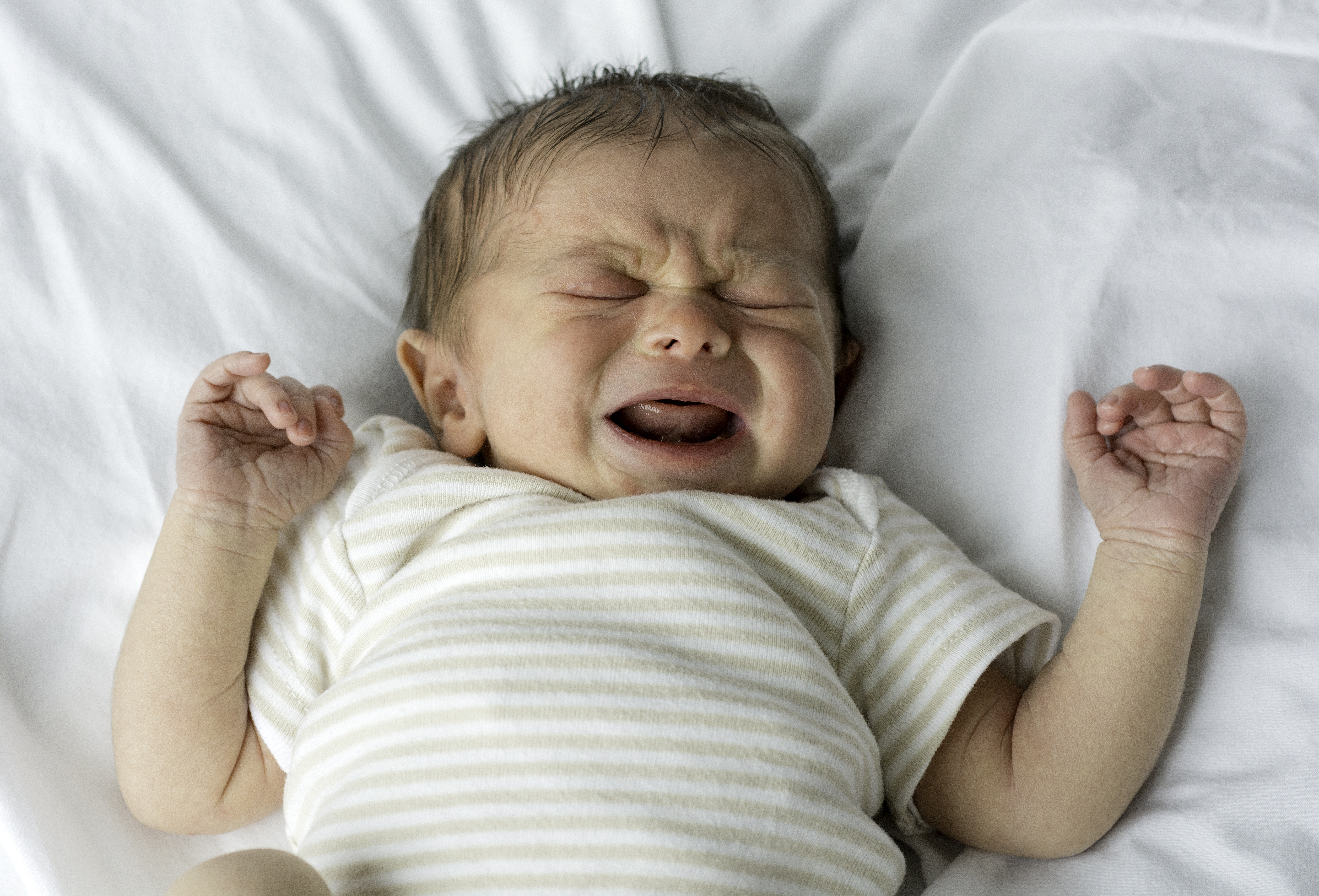 A human male baby, crying. The baby is only a few days old and still adjusting to life outside of the womb.